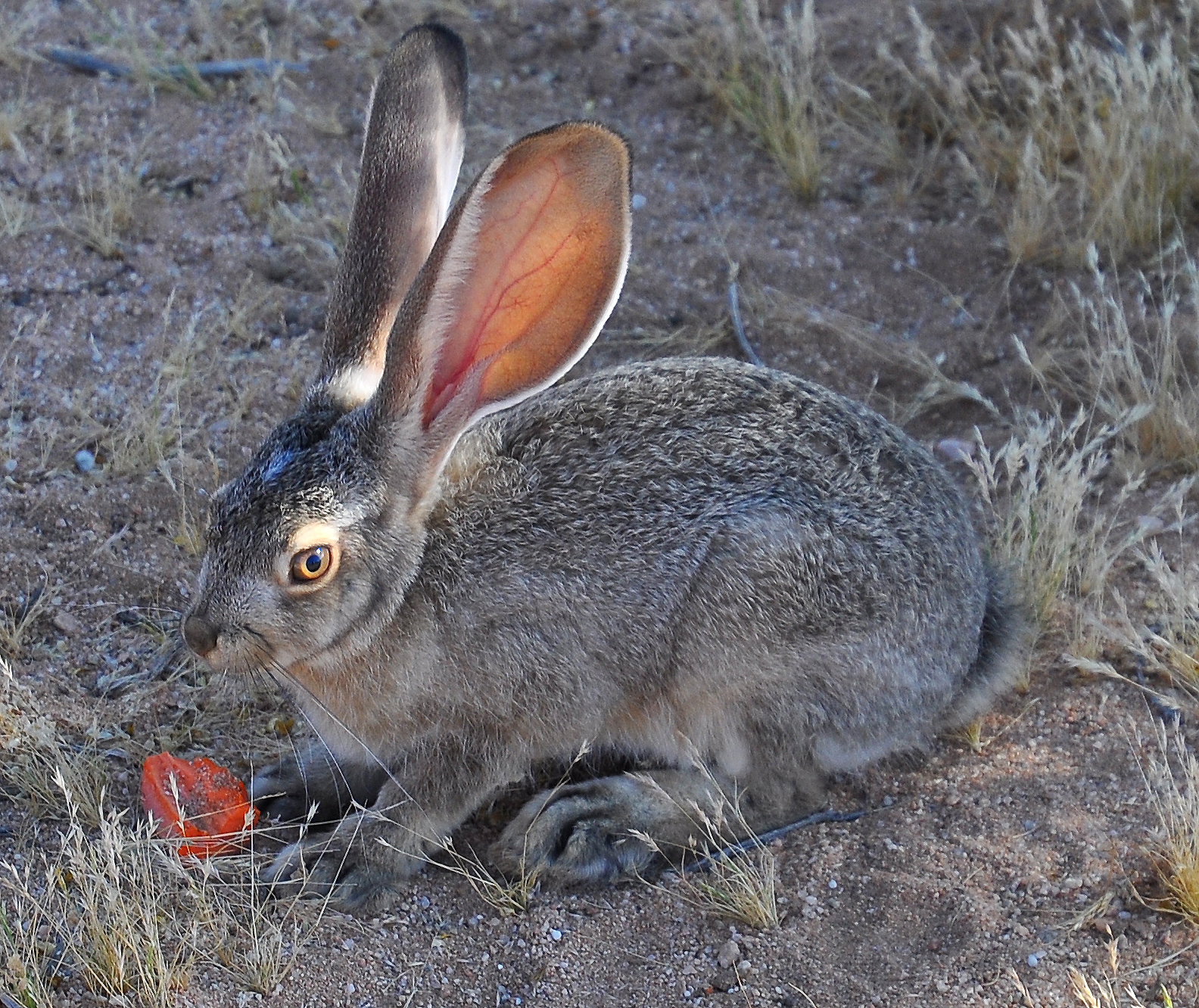 An adolescent Black-tailed jackrabbit, is too young to have learned to fear humans, and is oblivious to the camera being 3 feet from him, as he enjoys the hospitality of the cameraman's carrot breakfast in the Mojave desert, California